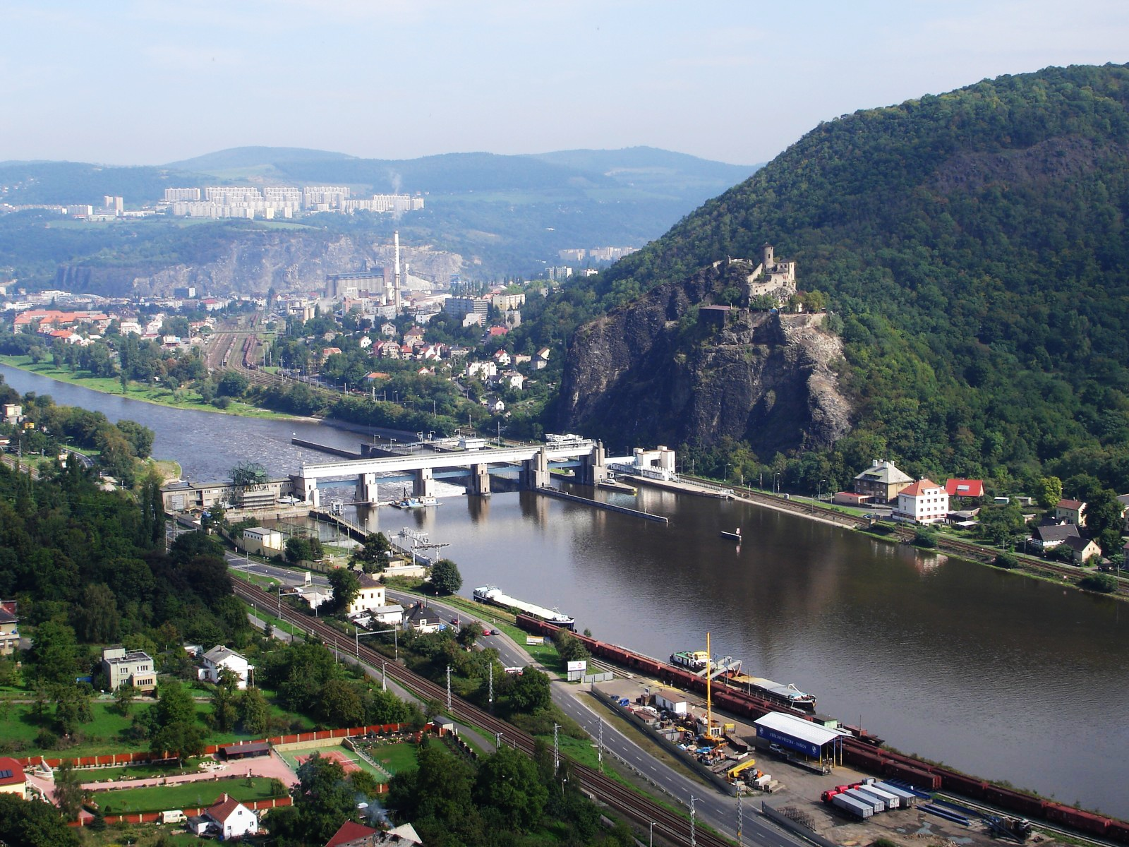 Burg Střekov, czech republic